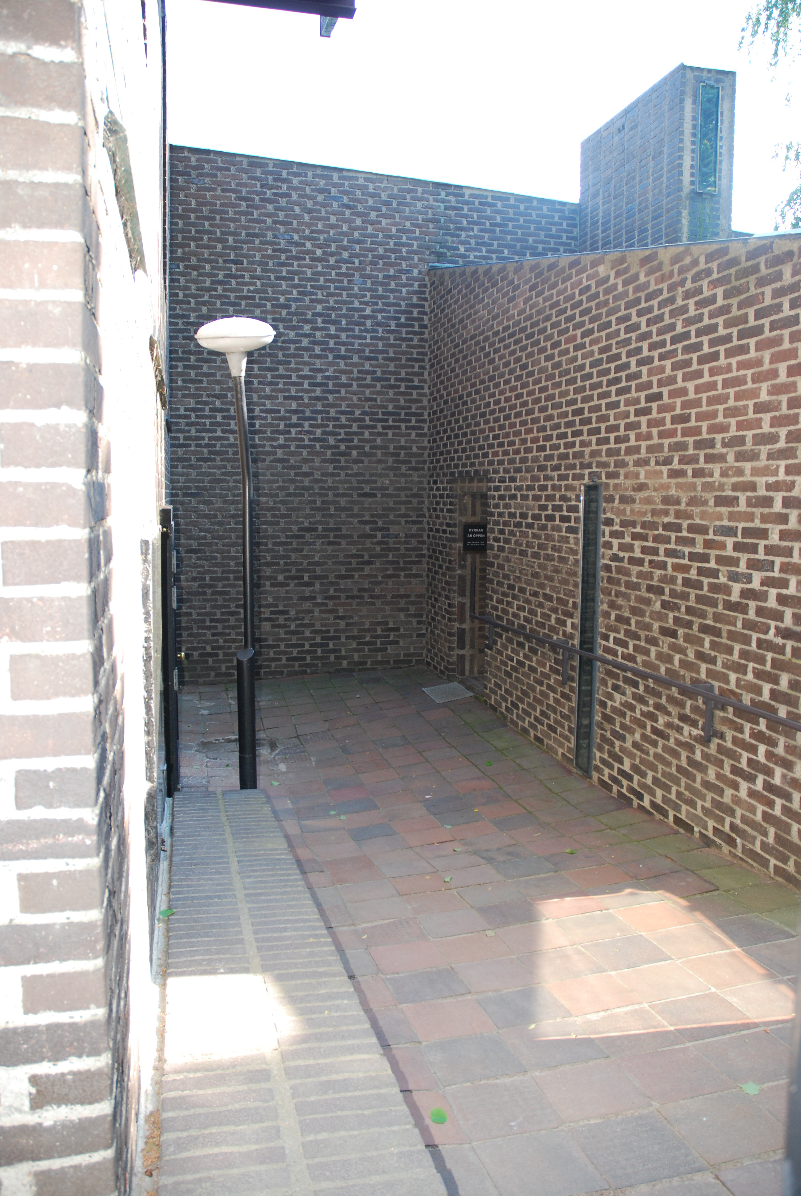 Sankt Petrikyrkan i Klippan, ingången